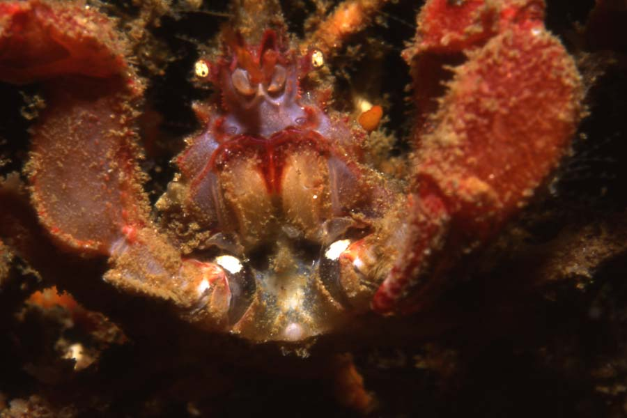 A close-up of the mouthparts of the hotlips spider crab, Achaeopsis spinulosa taken in False Bay, South Africa in 23m of water using a Nikonos V camera